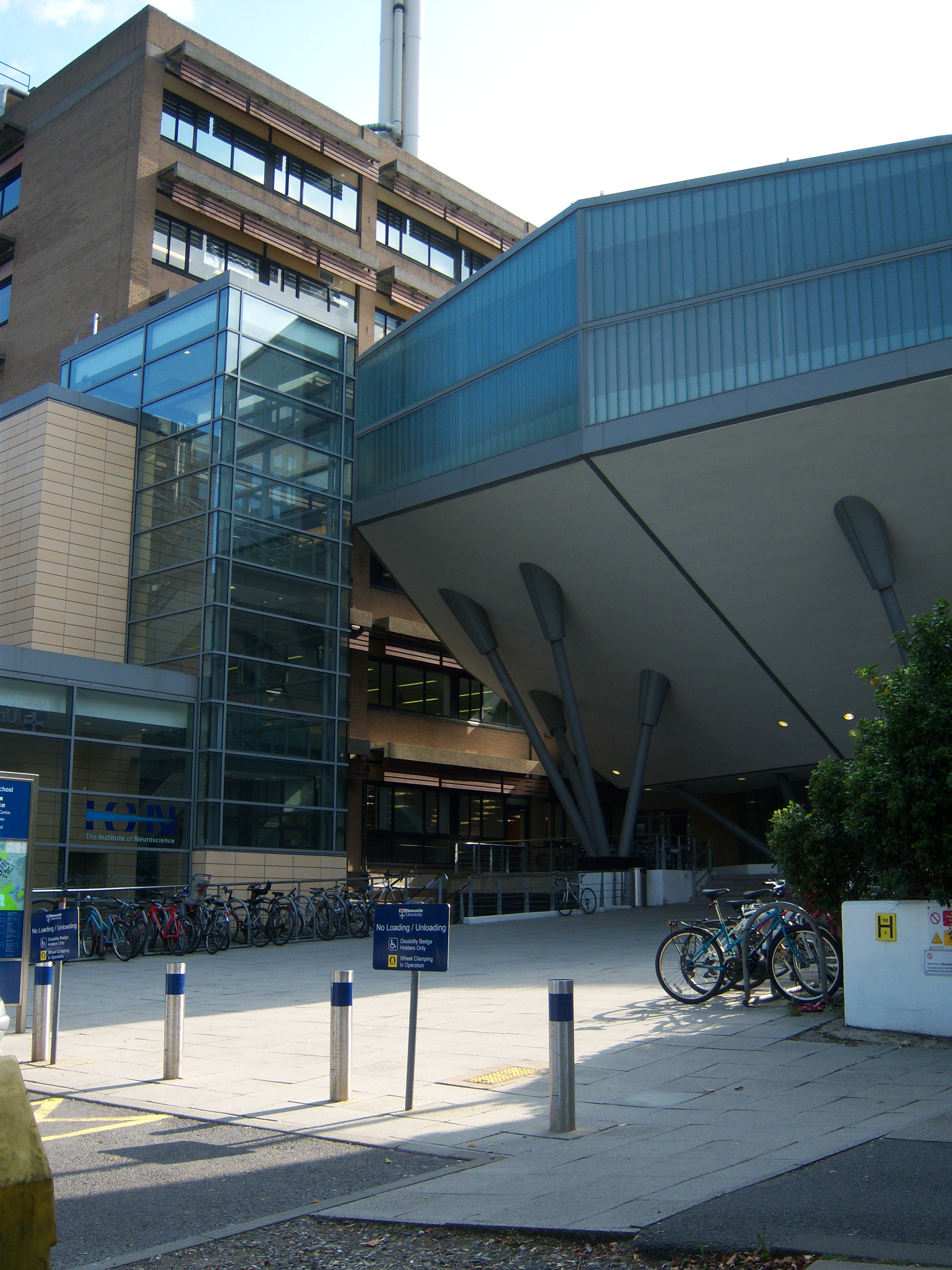 Medical faculty, Newcastle University. Looking SE at the Henry Wellcome Building (left), Catherine Cookson Building (distant) & David Shaw Lecture Theatre (right).